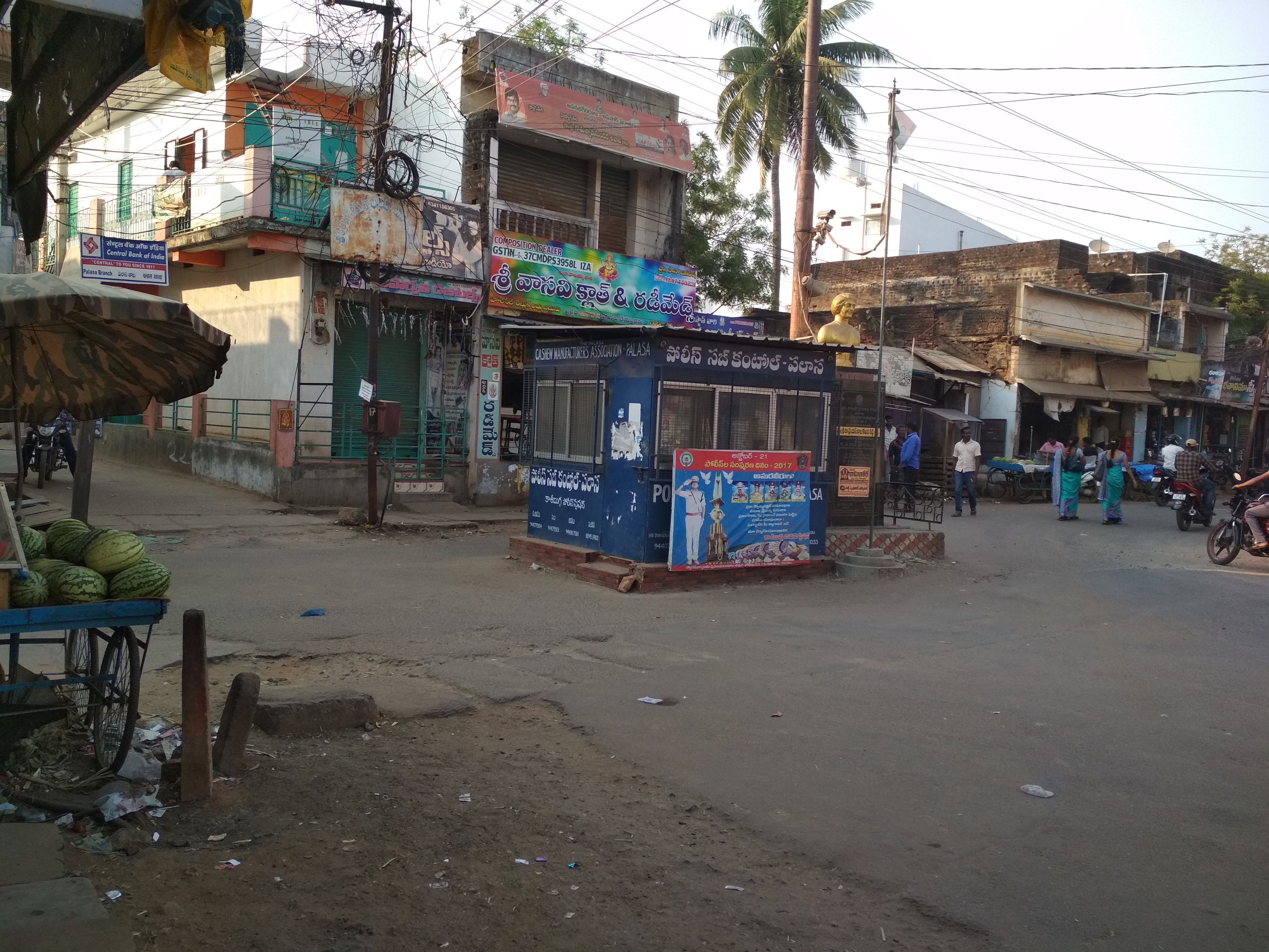 Palasa Indira chowk